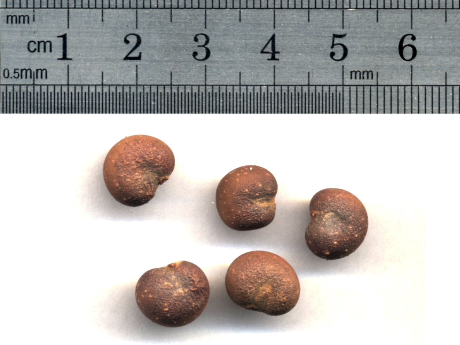 Seeds of Adansonia Digitata (Baobab) scanned with size information.